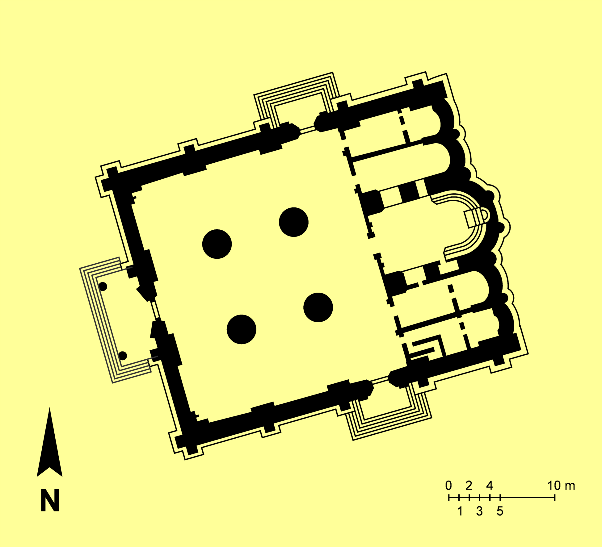 Moscow Kremlin, Assumption Cathedral. Groundplan of the original 15th century building. Based on: V. V. Kavelmakher: K voprosu o pervonachalnom oblike Uspenskogo Sobora Moskovskogo Kremlya. In: Arkhitekturnoye nasledstvo 38 (1995):214-35.